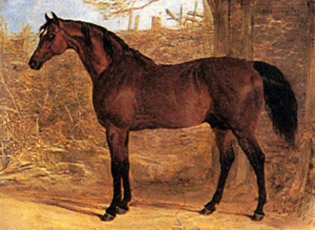 The 1815 Epsom Derby winner, Whisker, who was sired by Waxy (the 1793 Derby winner) and was a full brother to the 1810 Derby winner Whalebone. John Herring Sr is documented as painting Whisker [1] and this painting is in his style.